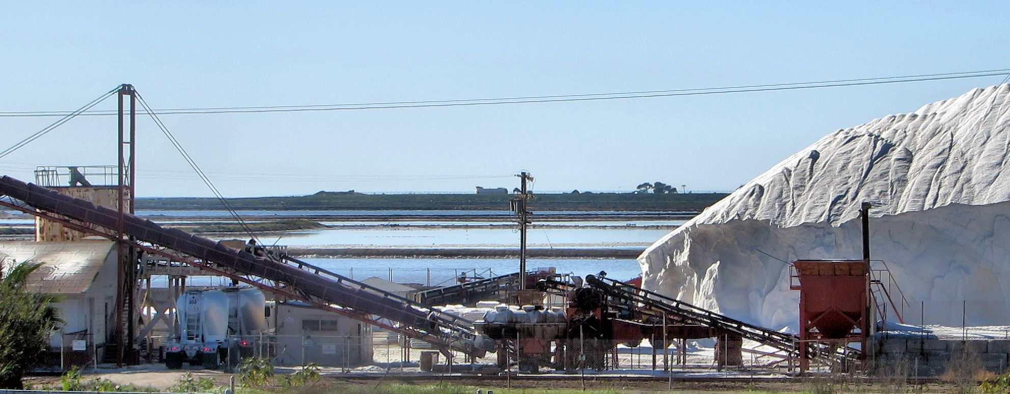 Seawater Dehydration South Bay San Diego salt extraction using ponds of seawater.